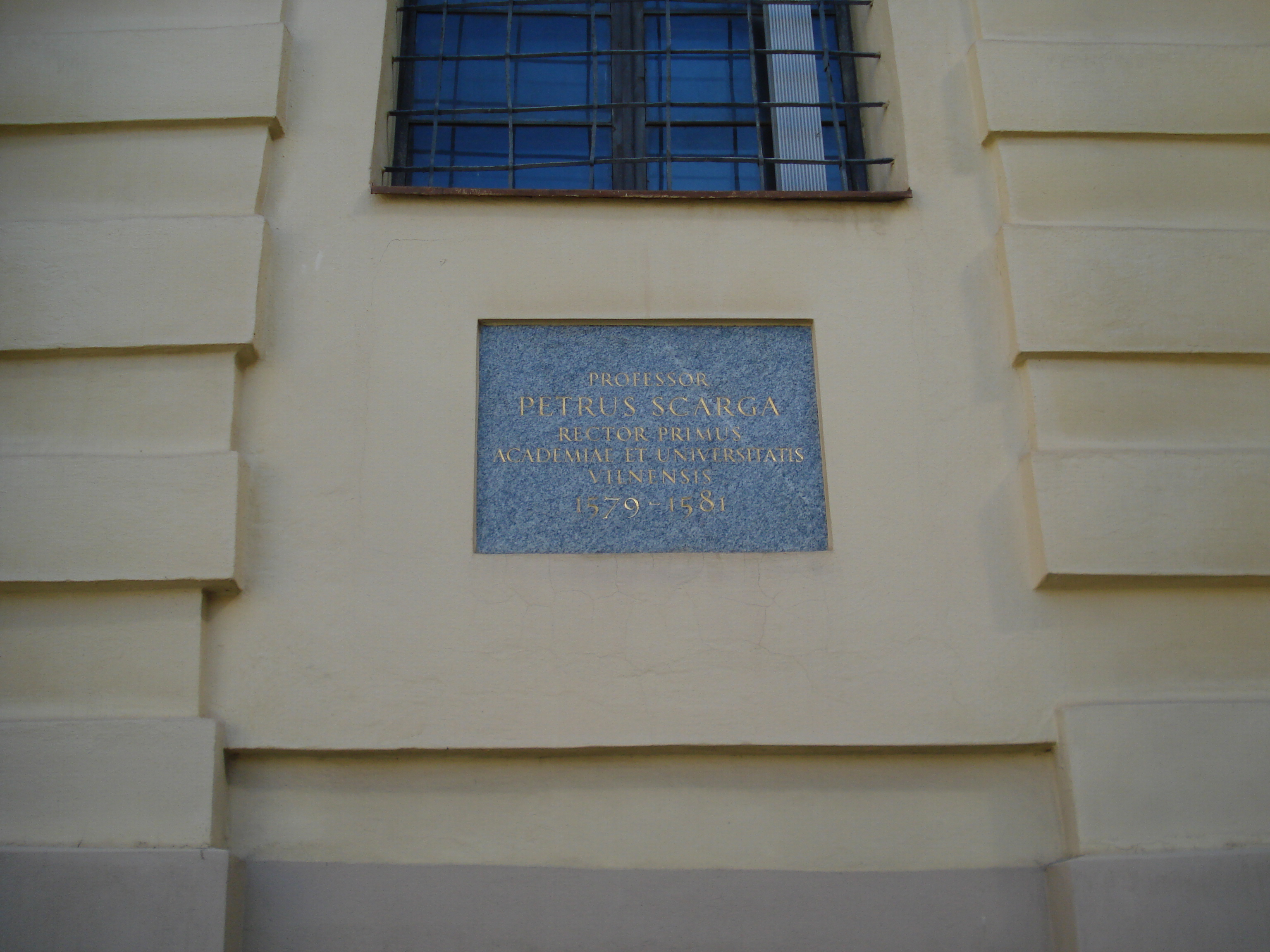 Vilnius University. Great Courtyard. Piotr Skarga memorial plaque om the main facade of the Church of St. Johns